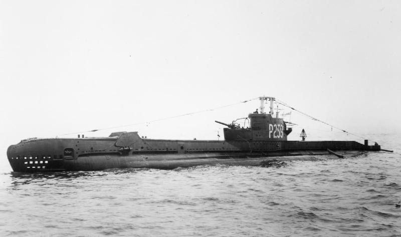 British S class submarine HMSM SIDON underway.